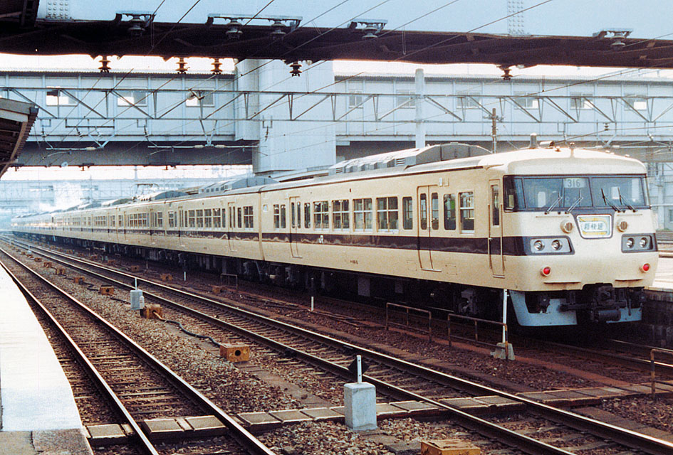 JNR 117 series EMU for a Special Rapid Service train of 12 cars